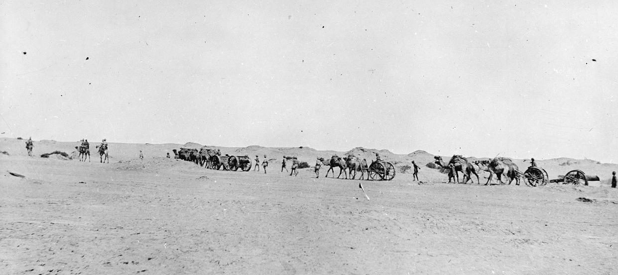 British Camel Battery of BLC 15 pounder guns after the capture of Hatum on 5 January 1918, Aden campaign. Teams of 4 camels in 2 pairs are seen towing a gun and limber at left and right of picture. In the centre appears to be an ammunition limber towed by 3 camels. The guns are identified as BLC 15 pounders by the large shroud housing the recuperator above the barrel, with its peculiar backward-sloping front end.